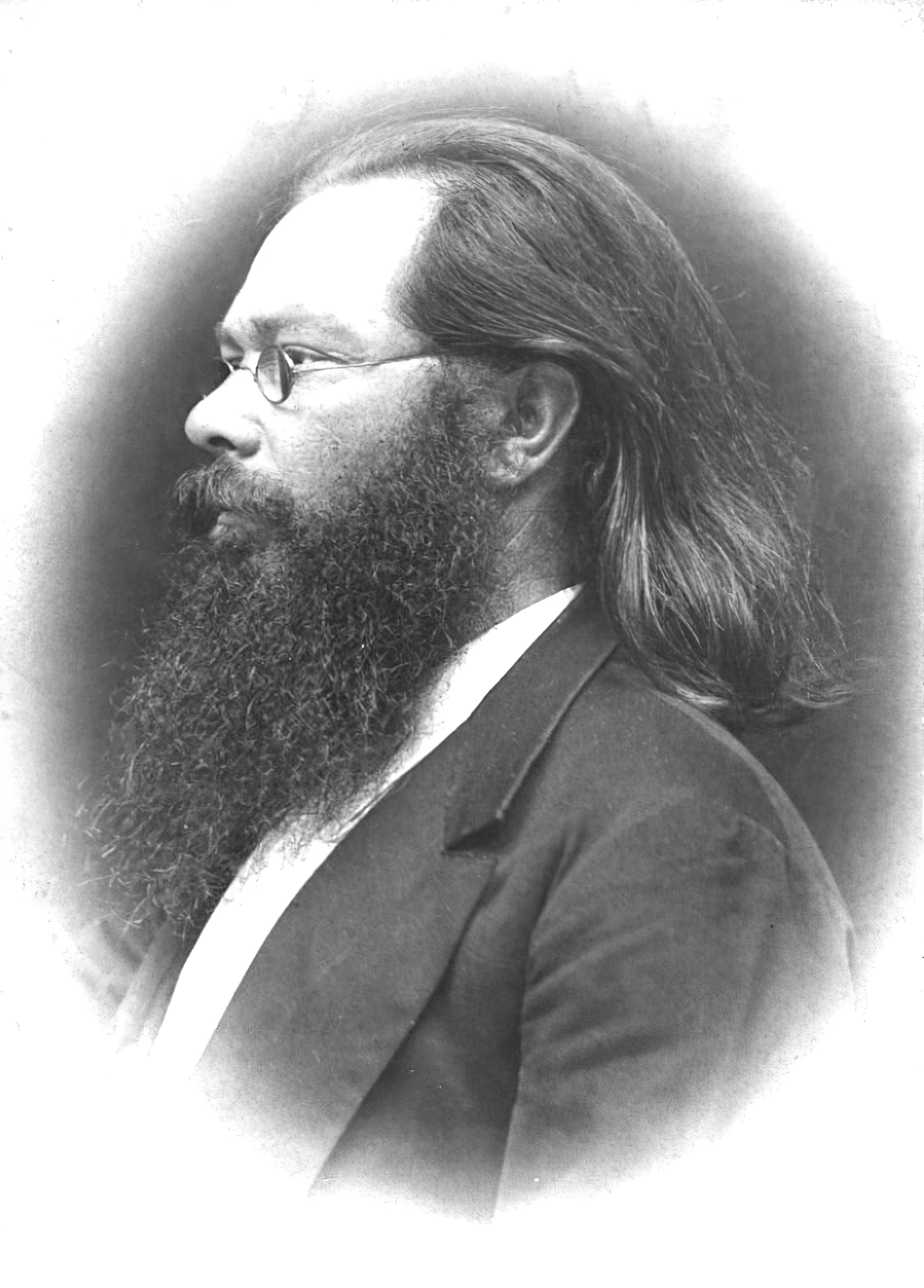 Kristapor Kara-Murza (1853-1902), prominent Armenian composer